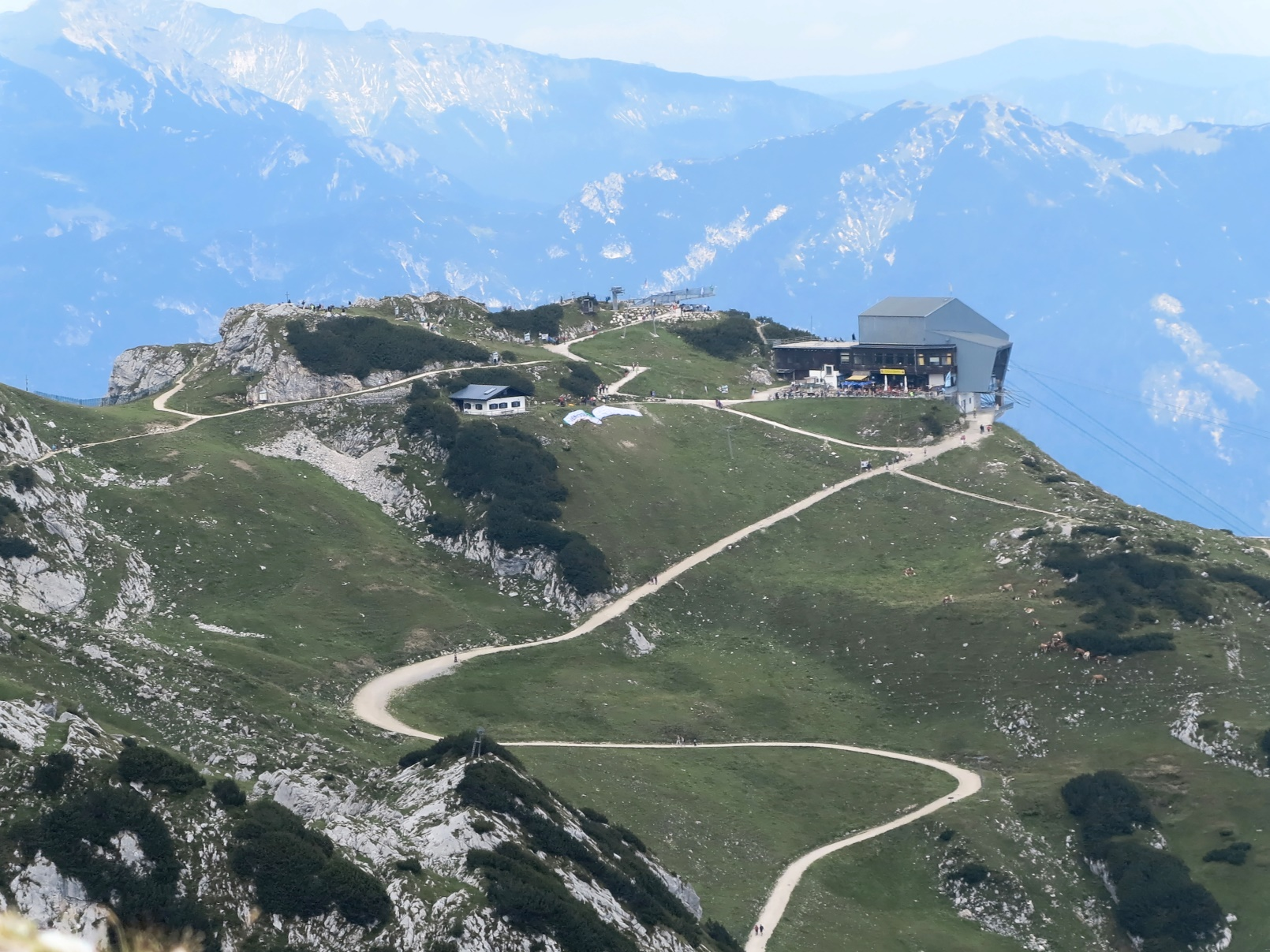 Osterfelderkopf with Alpsix and the Station of Ropeway